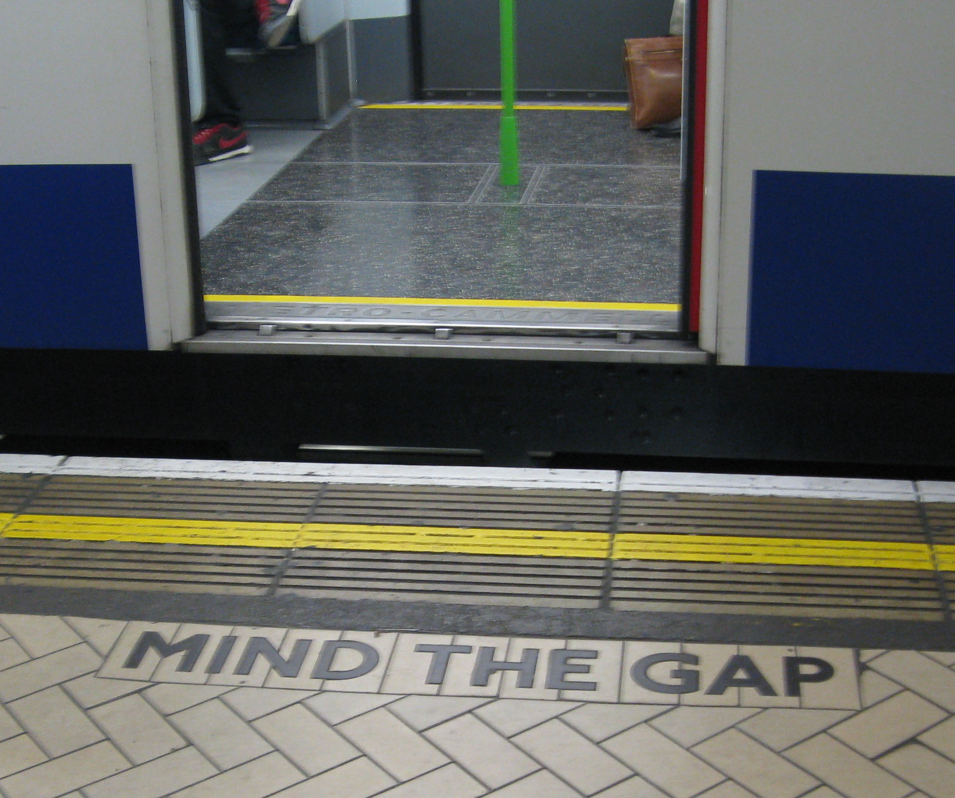 Mind the Gap sign on London Underground Victoria Station